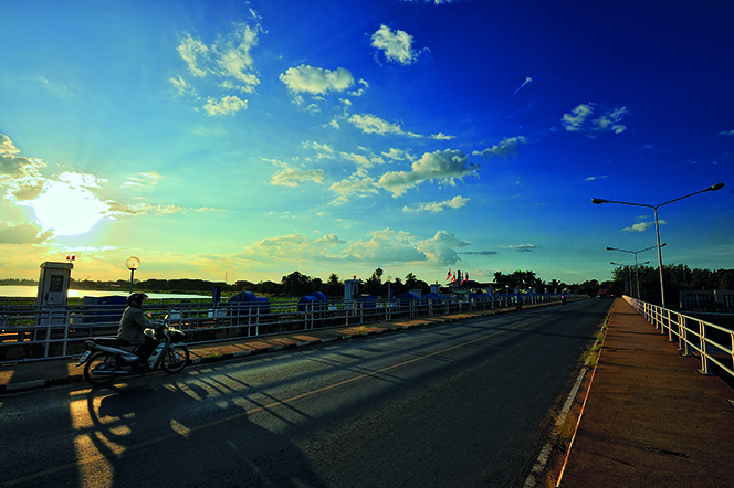 Chao Phraya Dam is the first barrage dam which was built since the King Rama V but was completed in 1957. It is located the bend of the Bang krabian River in Bang Luang sub-district, Sapphaya district. The structure was constructed with ferro concrete. The dam is 237.5 metres long and 16.5 metres tall. A 14-metre-wide floodgate allow boats to pass through. The dam is utilized for water irrigation for agriculture, aquatic resource conservation, and power generation used within the province. With spectacular landscape, there are resorts and a golf course to accommodate visitors. Visitors can also enjoy ten thousands of dabbling ducks feeding in an upper area of the dam from January to February